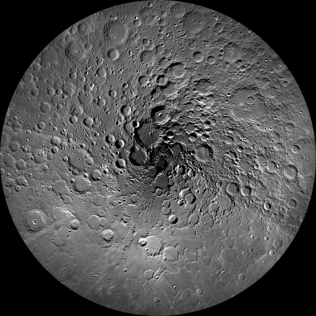 This image of the moon's north polar region was taken by the Lunar Reconnaissance Orbiter Camera, or LROC. One of the primary scientific objectives of LROC is to identify regions of permanent shadow and near-permanent illumination. Since the start of the mission, LROC has acquired thousands of Wide Angle Camera images approaching the north pole. From these images, scientists produced this mosaic, which is composed of 983 images taken over a one month period during northern summer. This mosaic shows the pole when it is best illuminated, regions that are in shadow are candidates for permanent shadow.